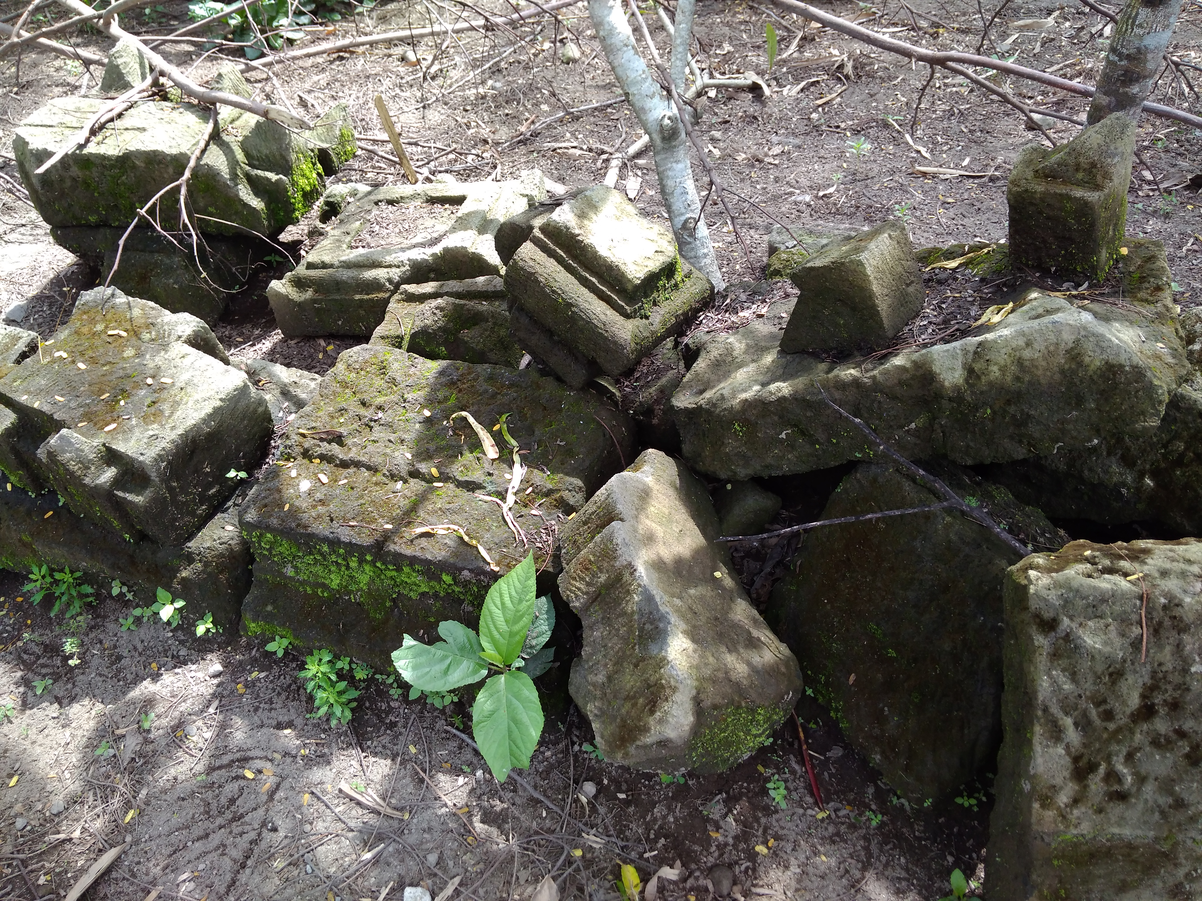 Temple stones in Kadisobo Site